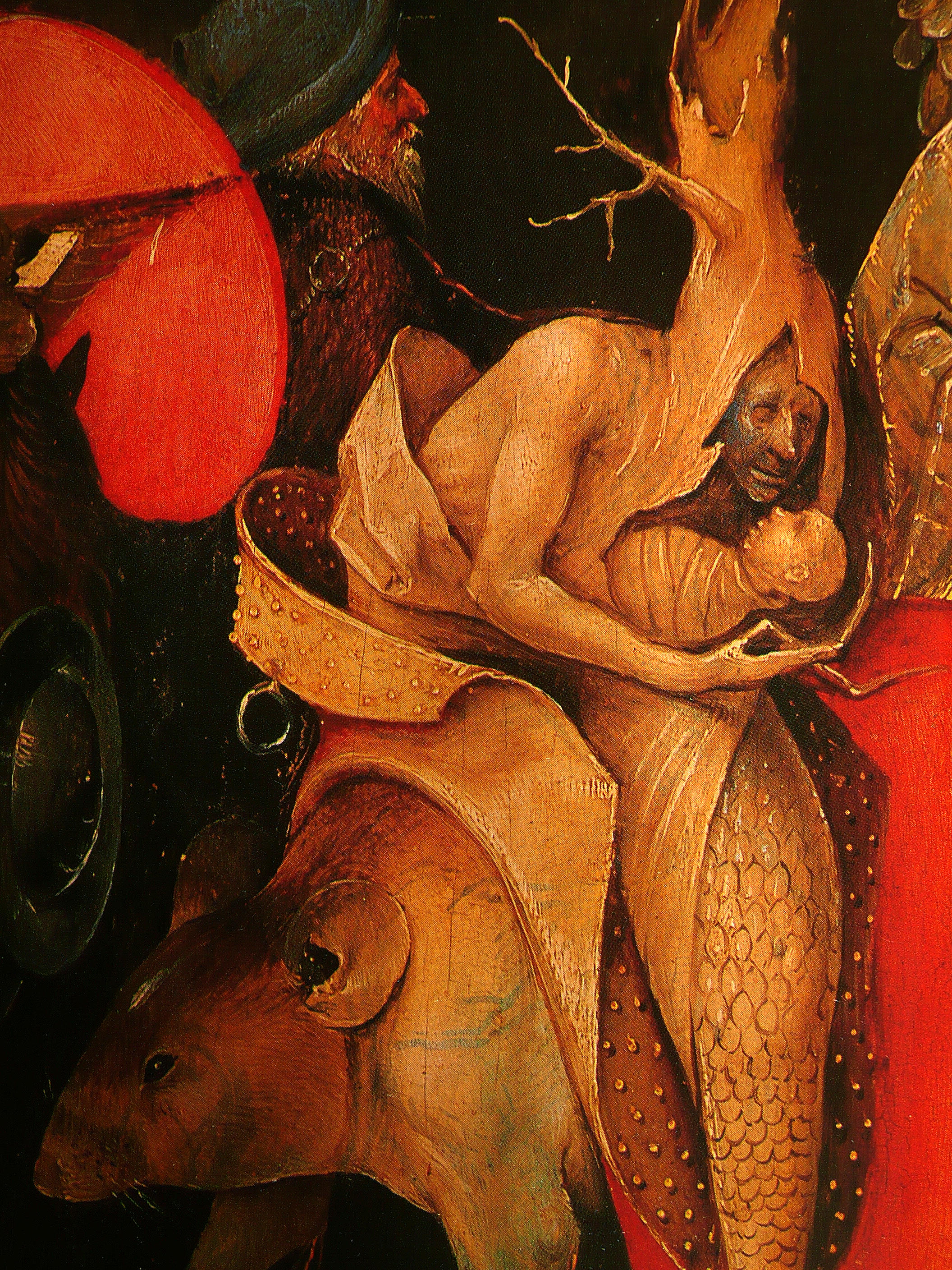 The Temptation of Saint Anthony, detail. Lisbon, Museu Nacional de Arte Antiga.